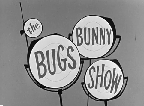 Logo for the television anthology series "The Bugs Bunny Show," aired on ABC in 1960.